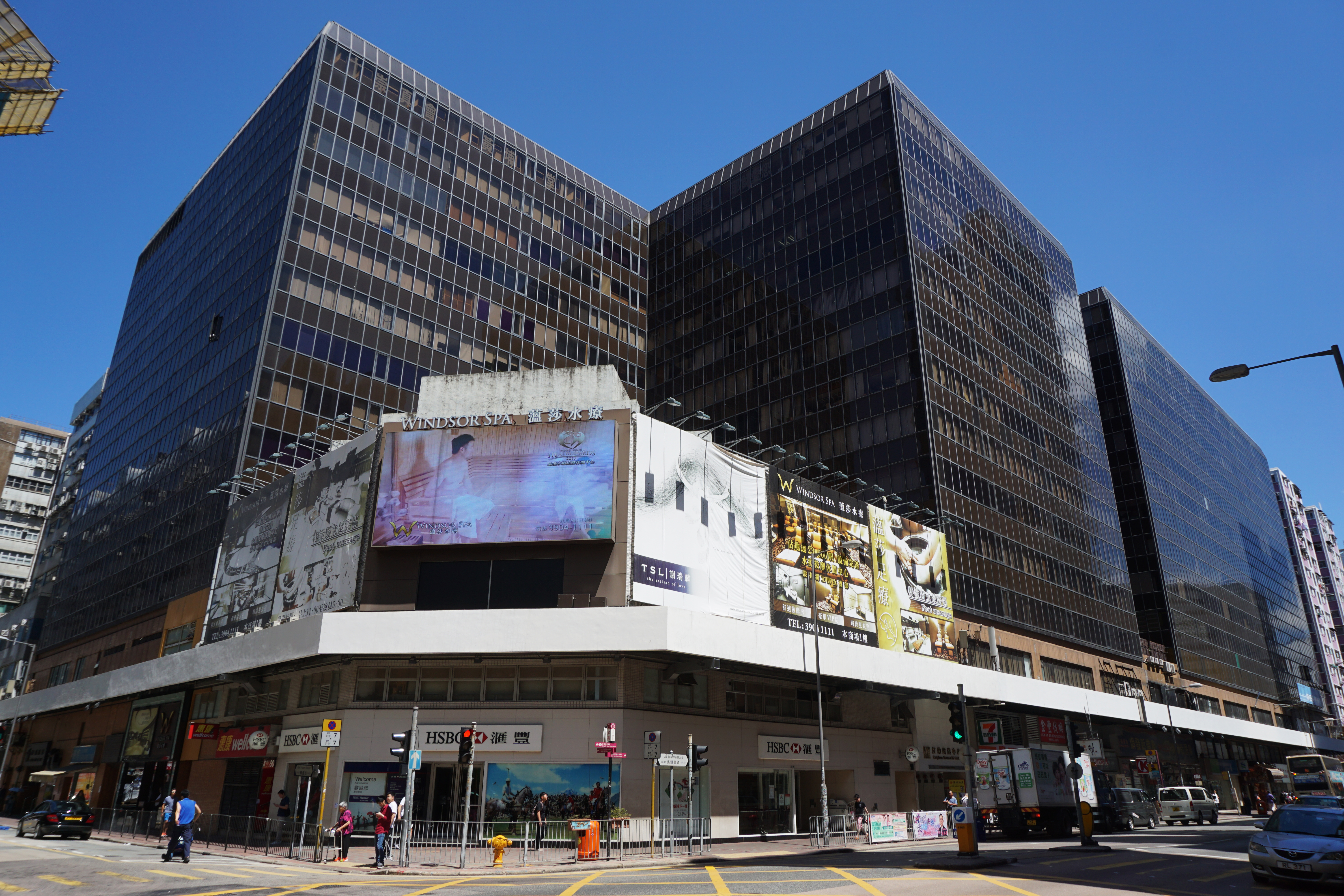 Hung Hom Commercial Centre in Hung Hom, Hong Kong.